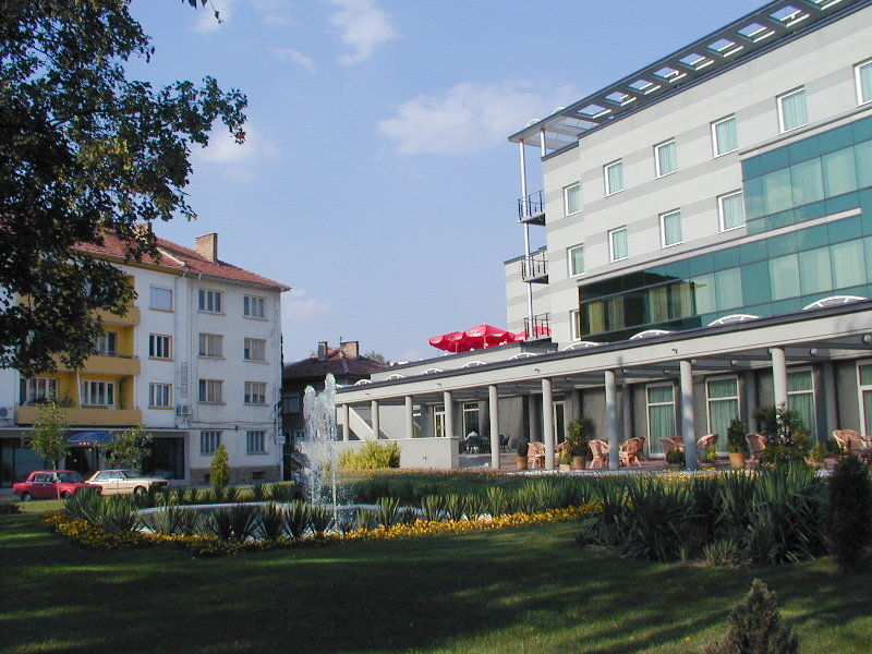 Sevlievo Plaza hotel, Oblast Gabrovo, Bulgaria